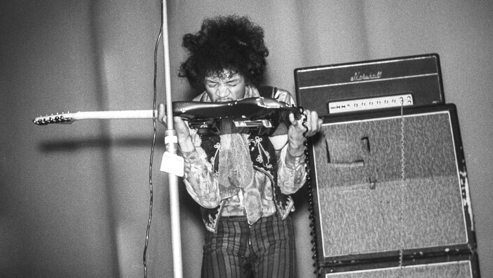 The Jimi Hendrix Experience performed at the Culture House in Helsinki.